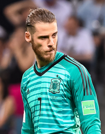 David de Gea with Spain against Portugal in the 2018 FIFA World Cup